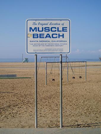 Muscle Beach at Santa Monica, California, USA